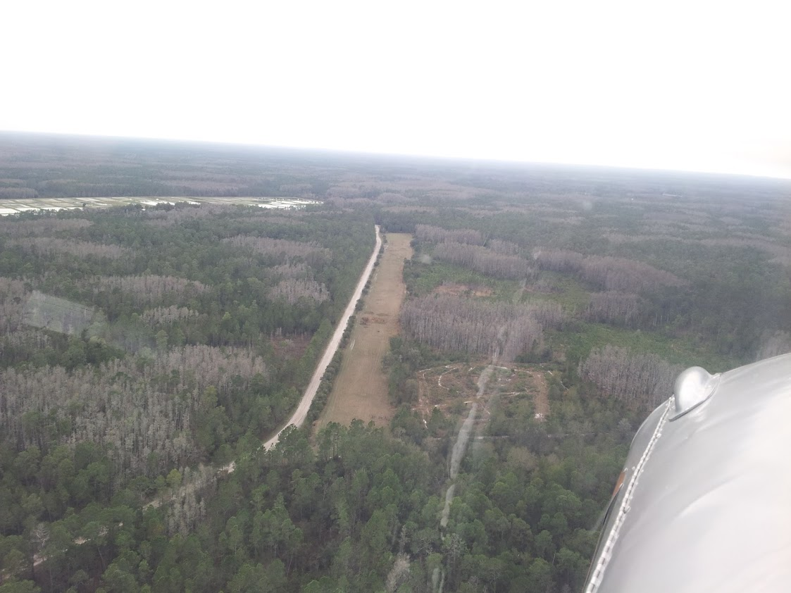 An aerial photograph of the Withlacoochee Army Airfield taken on January 13, 2013.